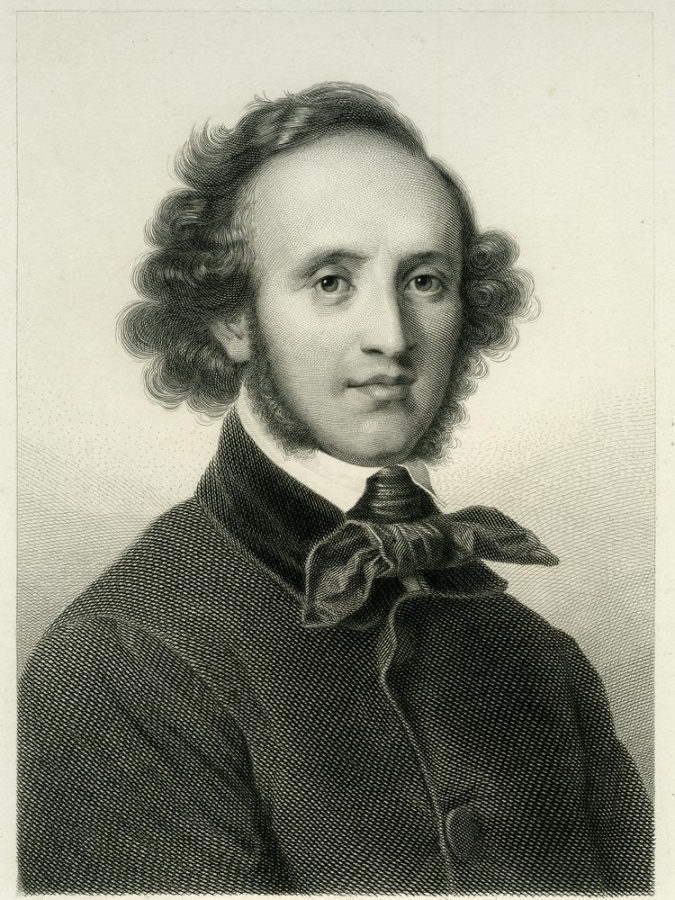 Engraving of Felix Mendelssohn